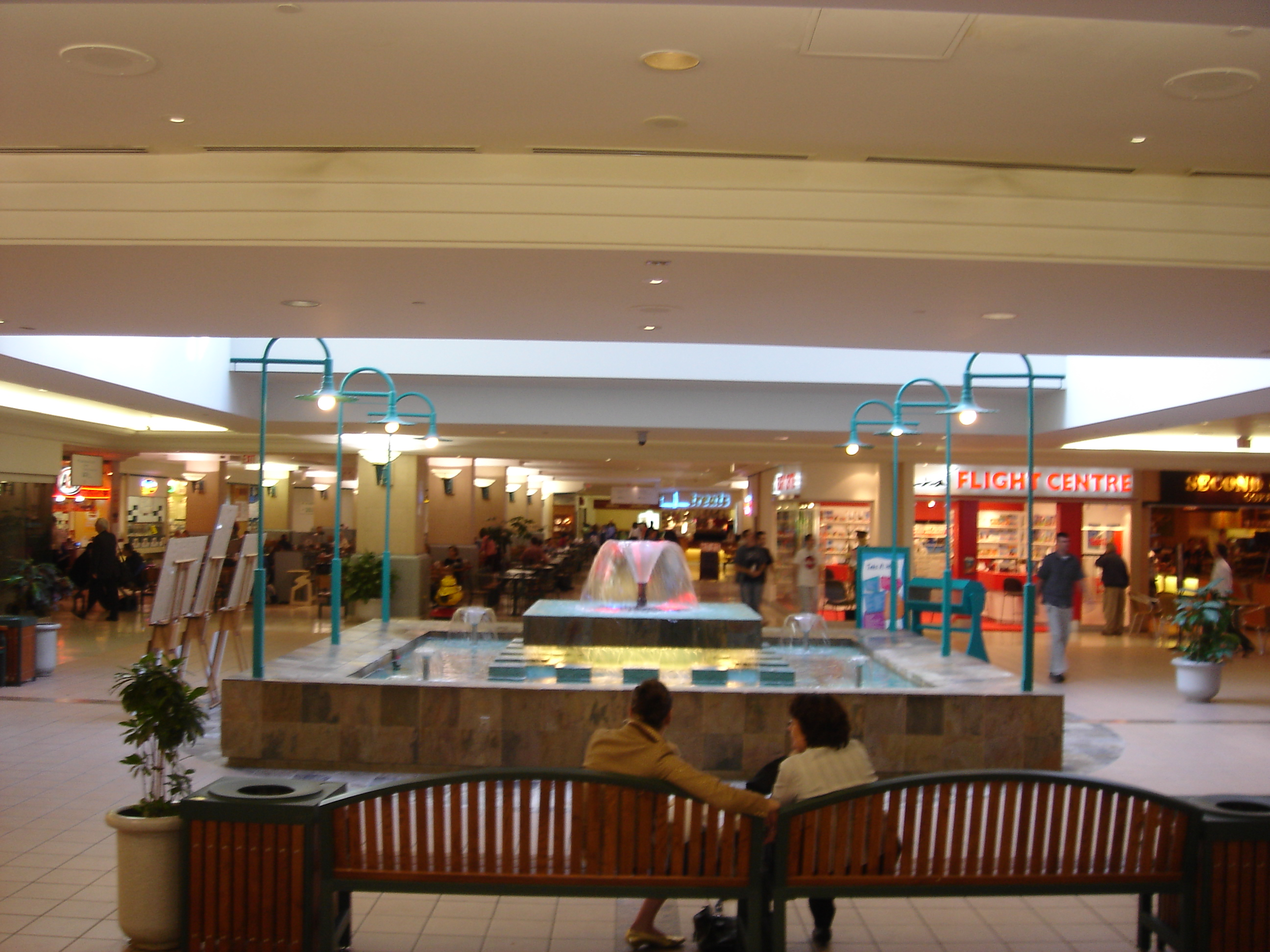 I am the author